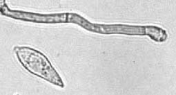 Hyphae and a spore of Magnaporthe grisea, the causal fungus of blast of rice. Photo by Fk.